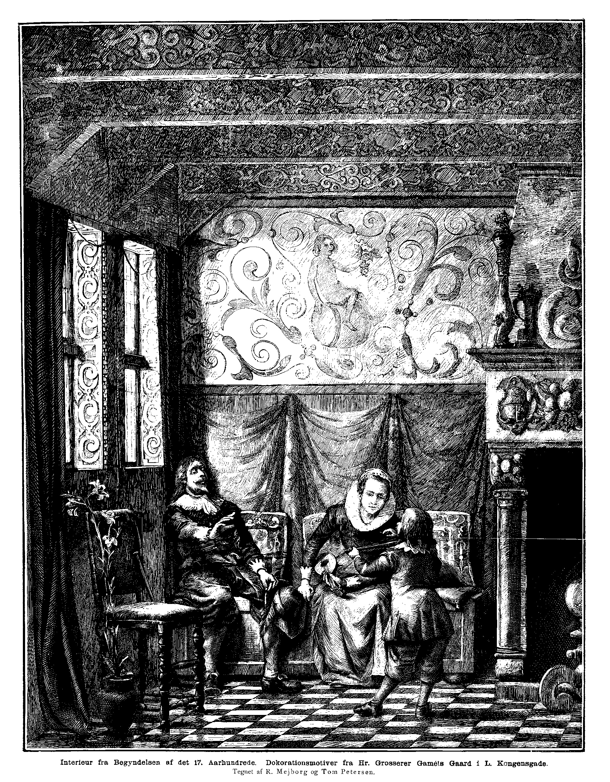 Skippernes Lavshus (The Skippers' Guild House), Renaissance house in Copenhagen. Built 1606, demolished 1881-82